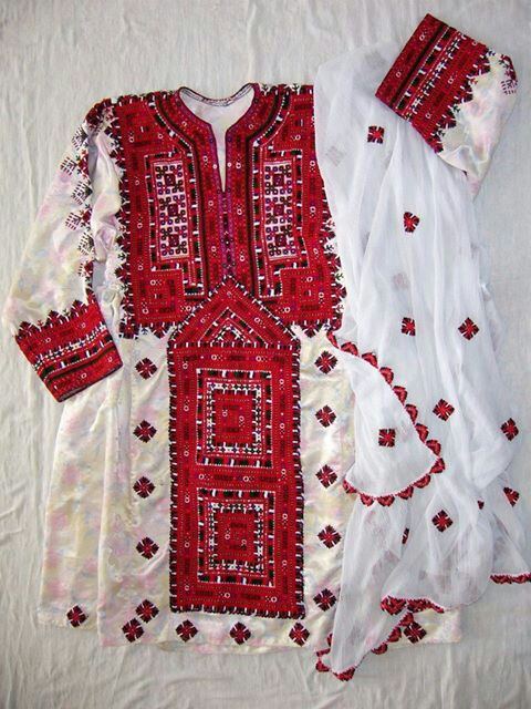 A sample of red and white embroidered clothes.